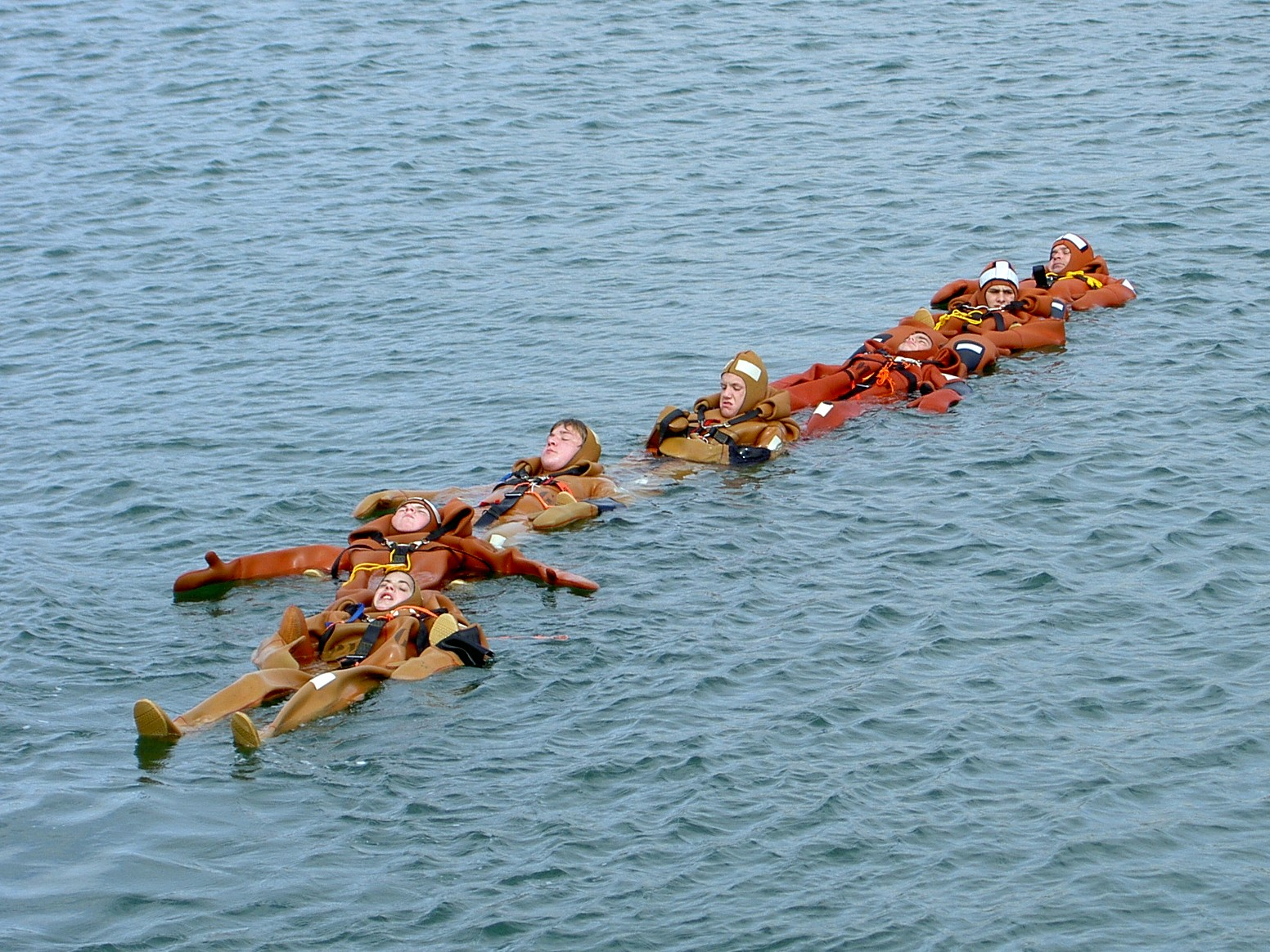 Training of young seamen (stay together, with surivial suits)